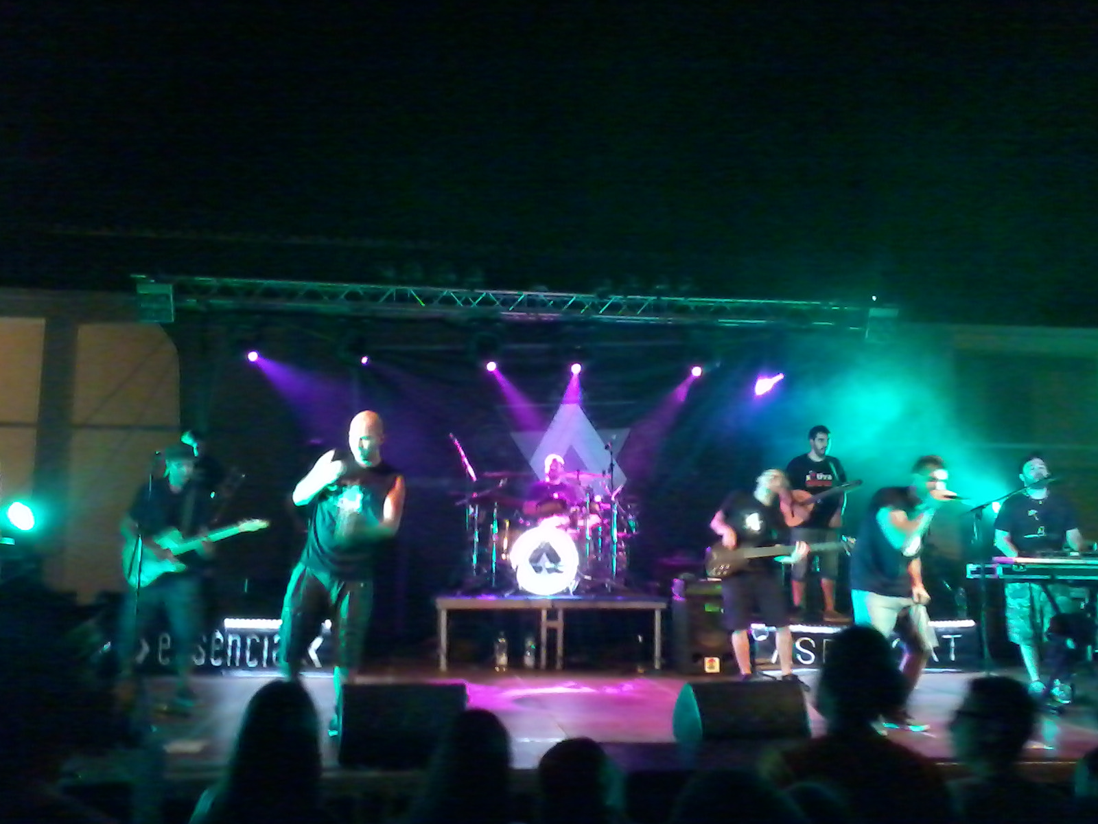 Concert of the valencian group Aspencat in La Canonja, Tarragonès.